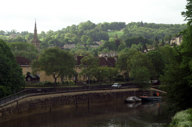 View SE from North Parade Bridge. Far top left is Prior Park College ST7662, to the right of this is a church spire in Dolemeads and straight ahead Beechen Cliff and Fox Hill.